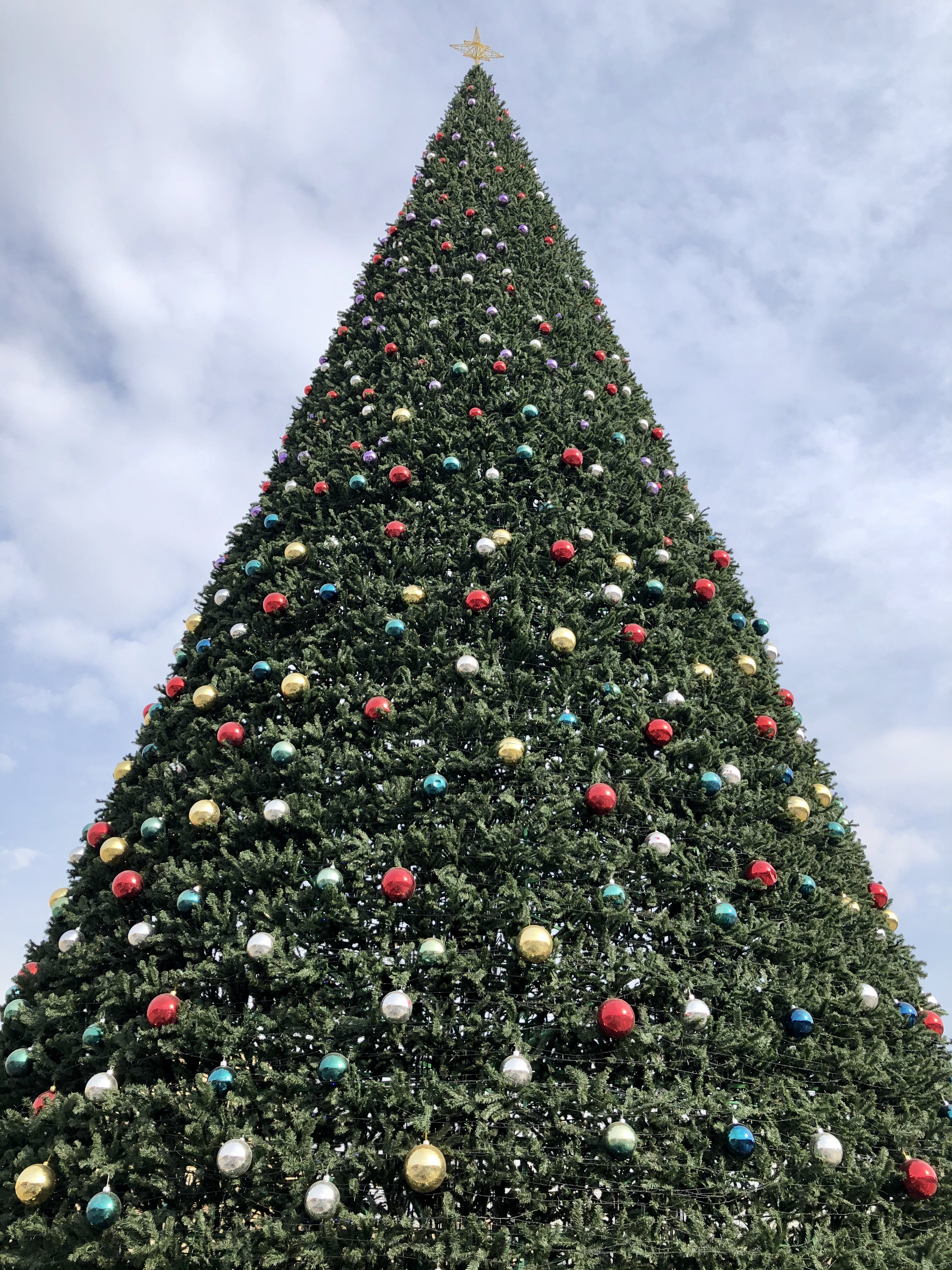 Christmas main tree one the Republic square, Yerevan